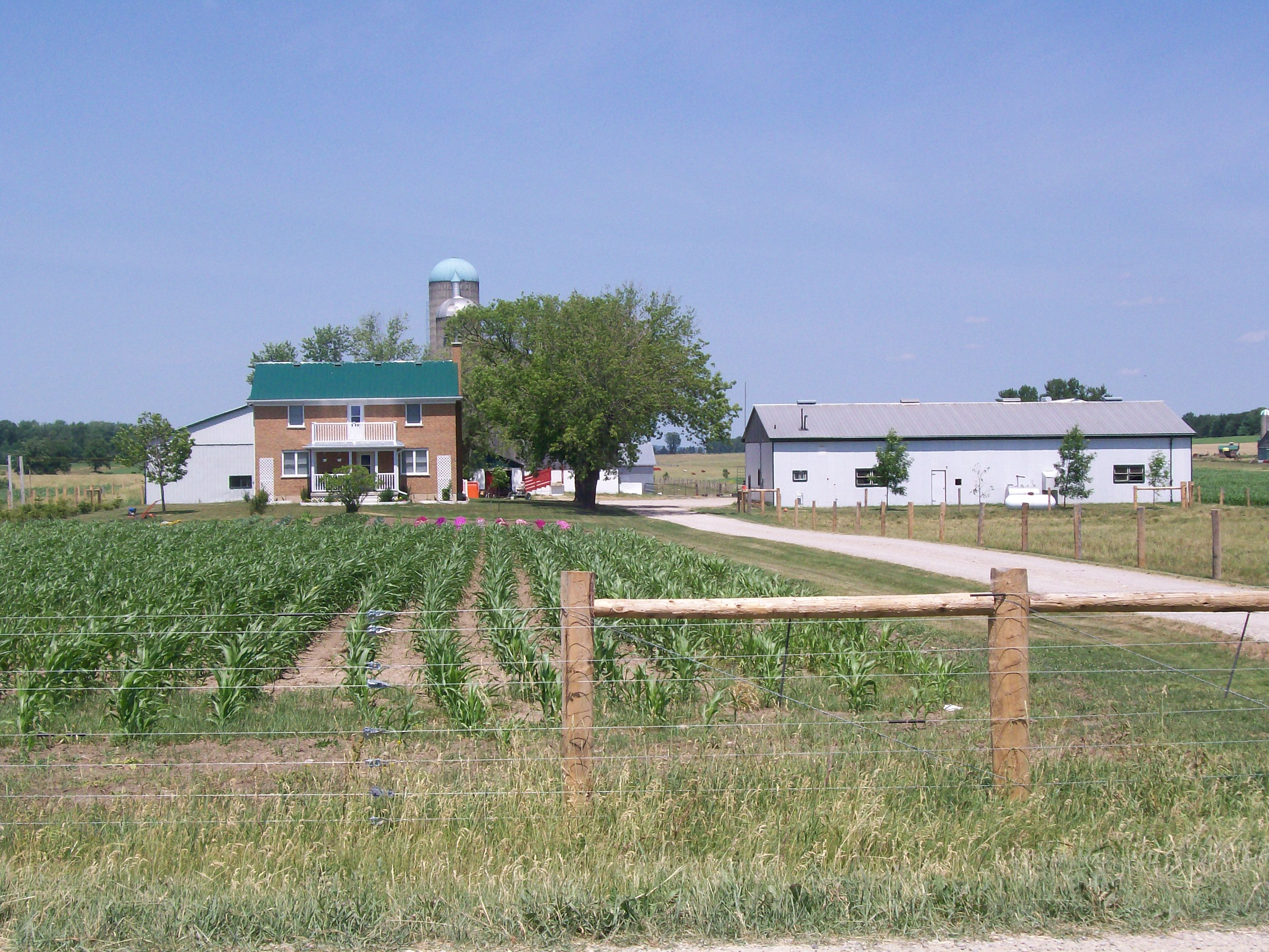 Traditional Mennonite farm